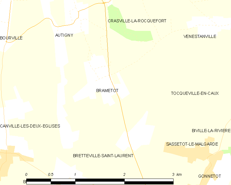 Map of French municipality Brametot